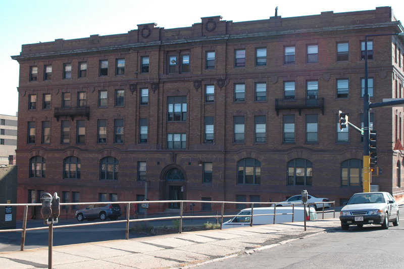 North face of the NRHP-listed YWCA of Duluth, along Second Avenue.